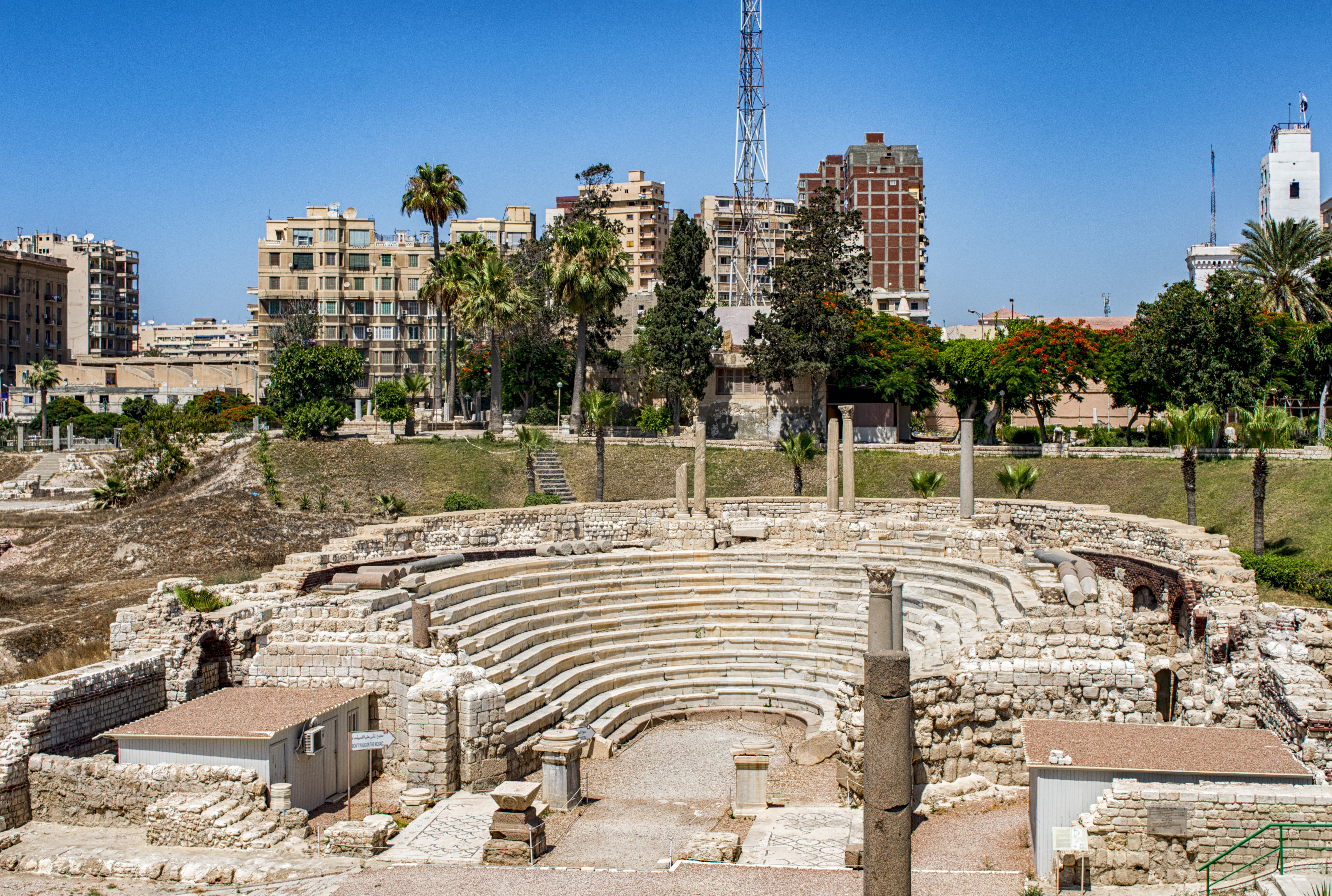 Roman Amphitheater of Alexandria